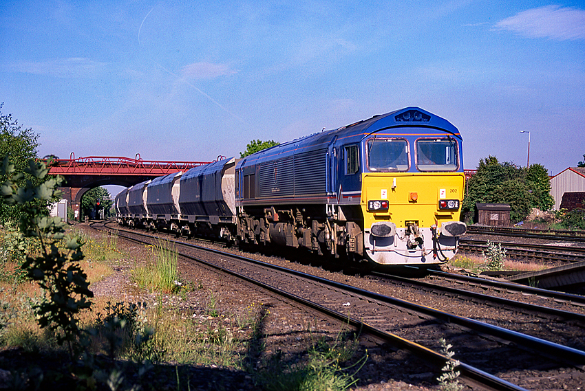 BR class 59 59202 in National Power livery at Knottingley in 1996. Scanned from a Fujichrome 35mm slide.